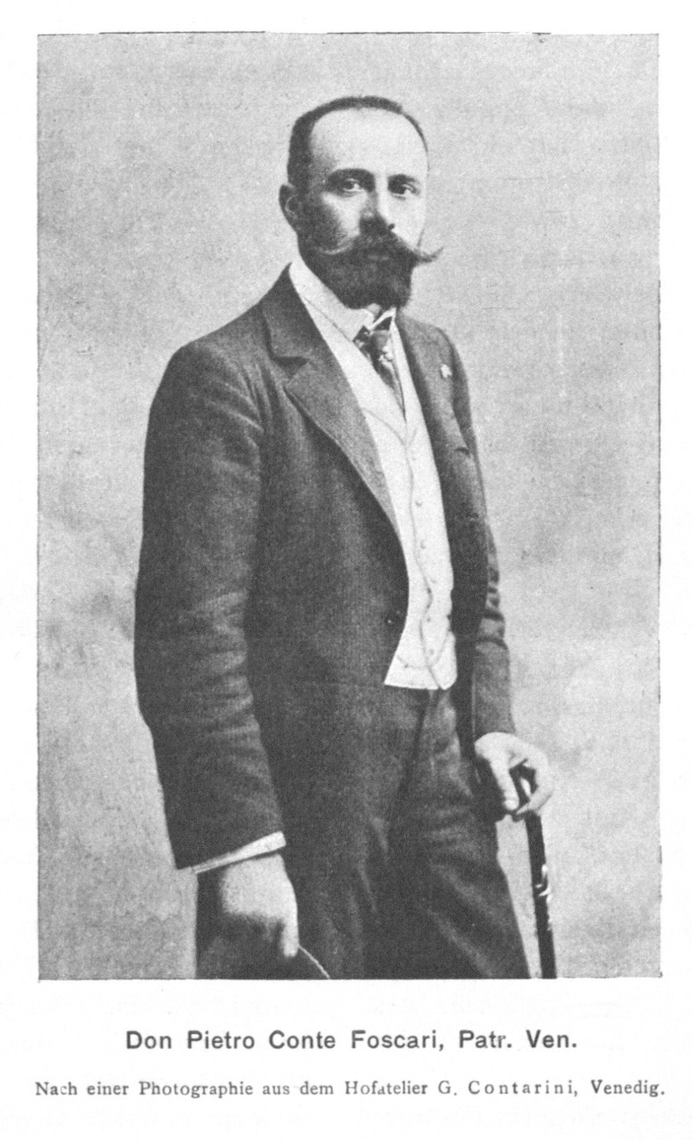 Portrait of Piero Foscari (1865-1923), Italian army officer and politician.